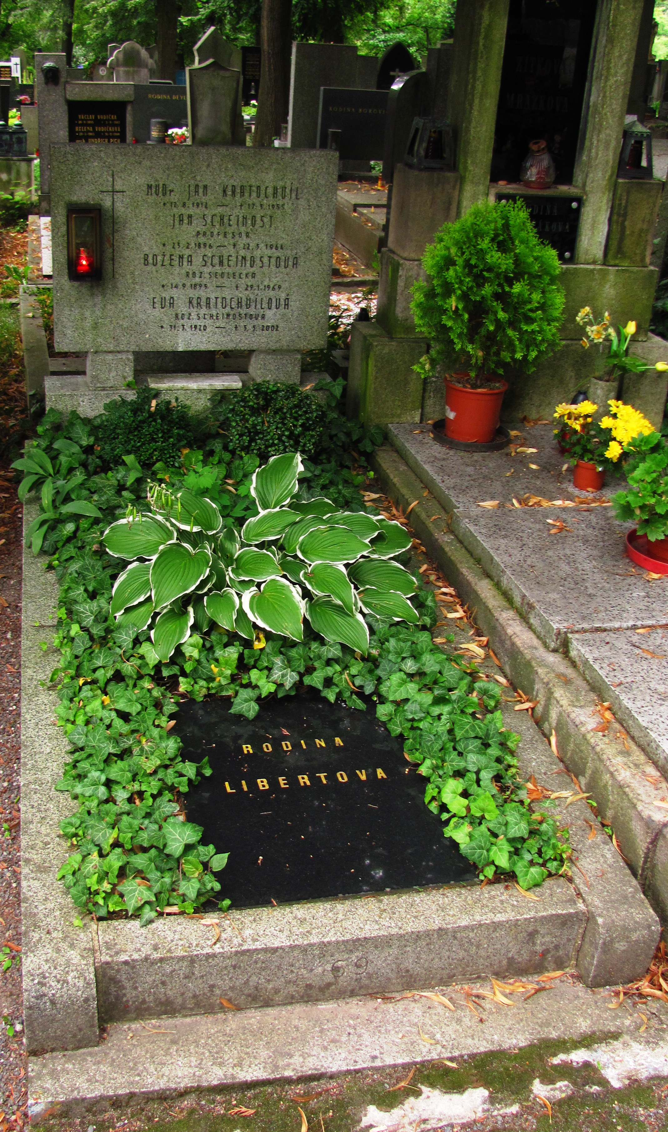 Tomb of Jan Scheinost, Czech journalist (Šárka Cemetry, Prague)